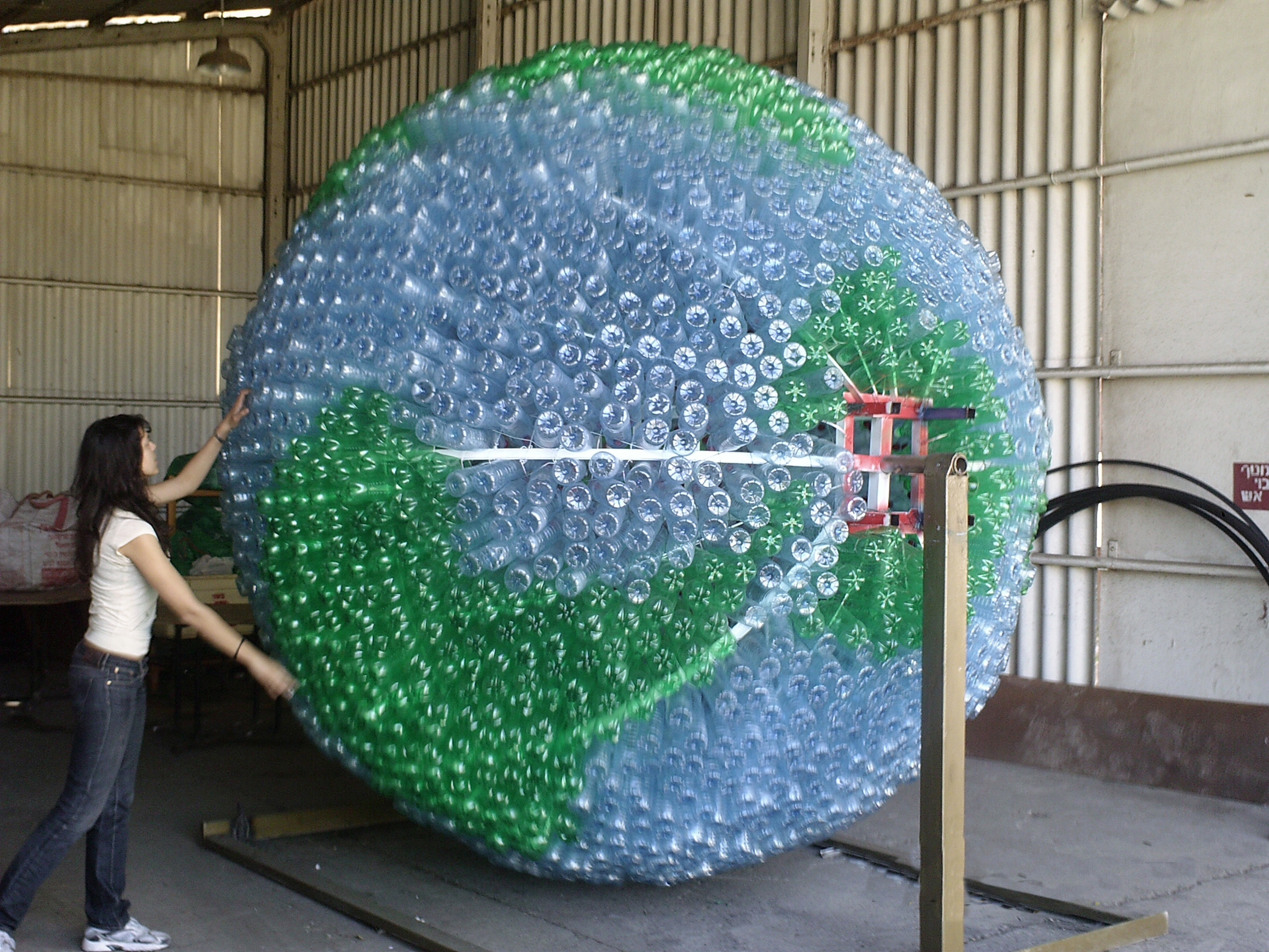 Name: Entry to the World's Hope, An artwork created to remark World Earth Hour in Israel. 2011